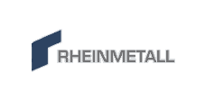 Logo of the German defence technology company Rheinmetall